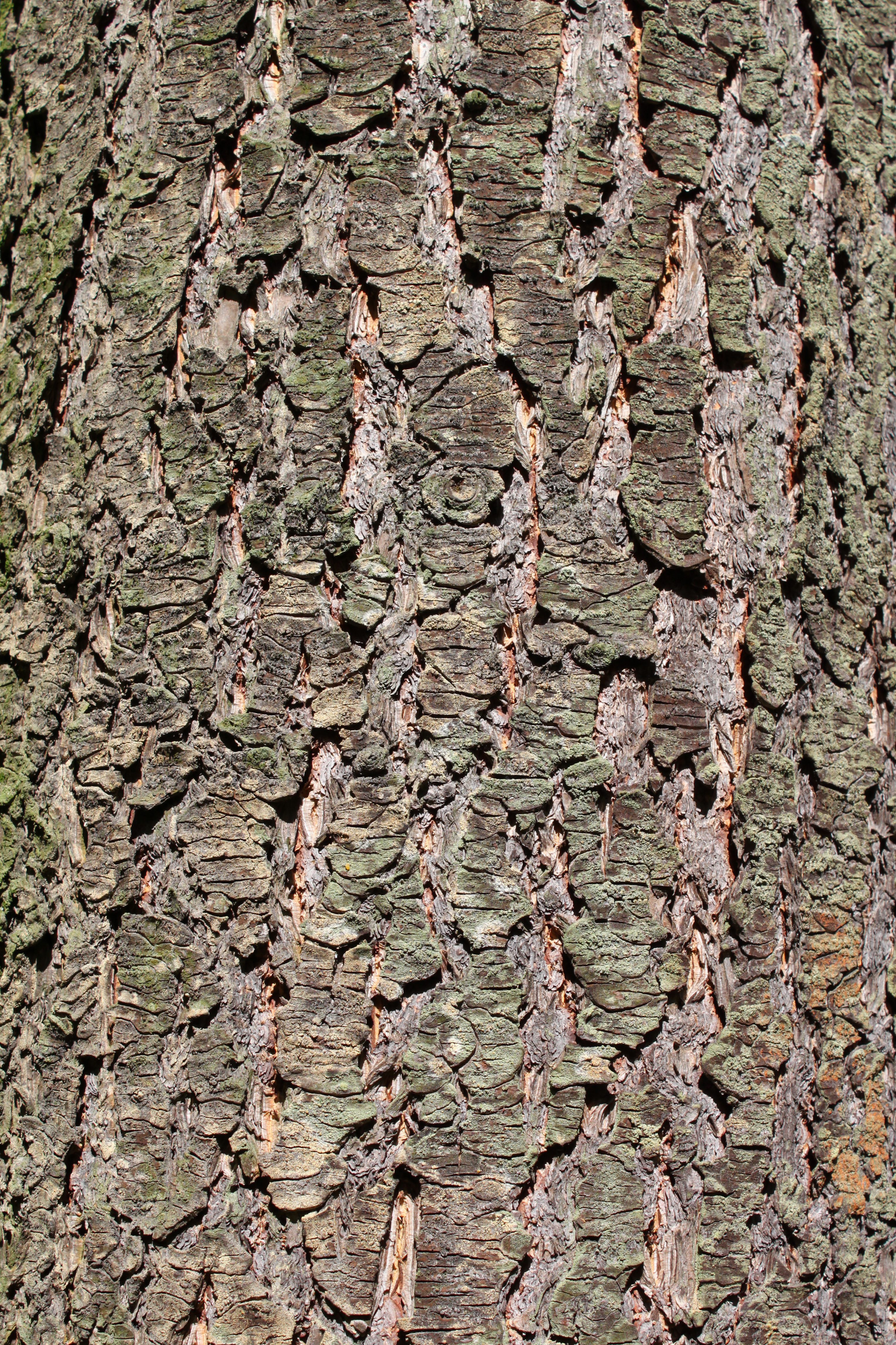 Pseudotsuga menziesii subsp. menziesii bark in Rogów Arboretum, Poland